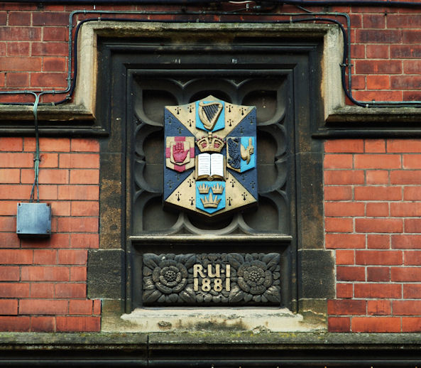 Coat of arms, Queen's University, Belfast (2) The arms of the short-lived Royal University of Ireland (1880-1904), incorporating the emblems of the four provinces, on the southern side of the quadrangle. Queen’s, Belfast was one of the six constituent colleges.